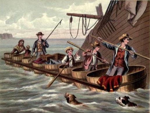 Illustration